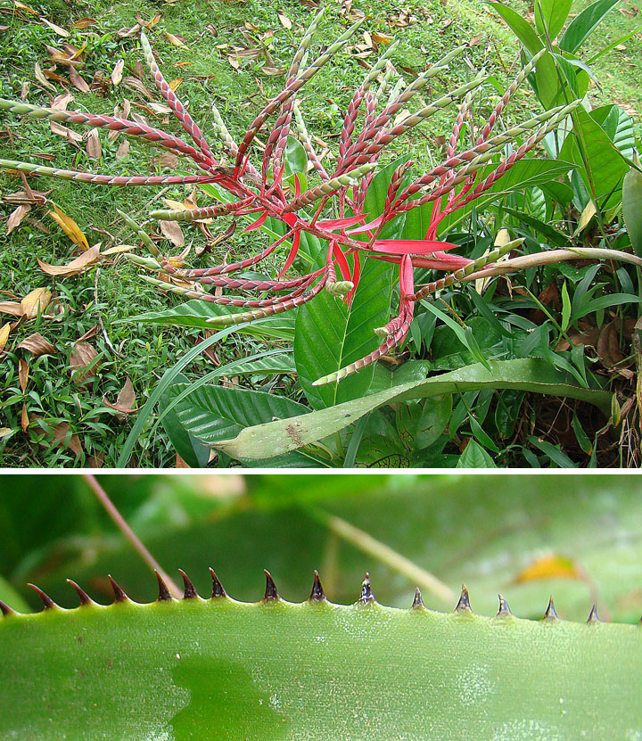 A well armed bromeliad, native from southern Mexico to Bolivia, here from San Blas Range, Panama. In context at